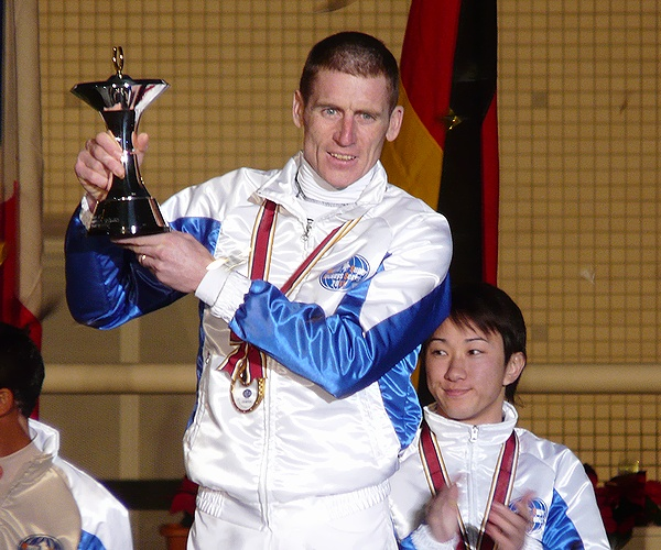 Johnny-Murtagh20111204